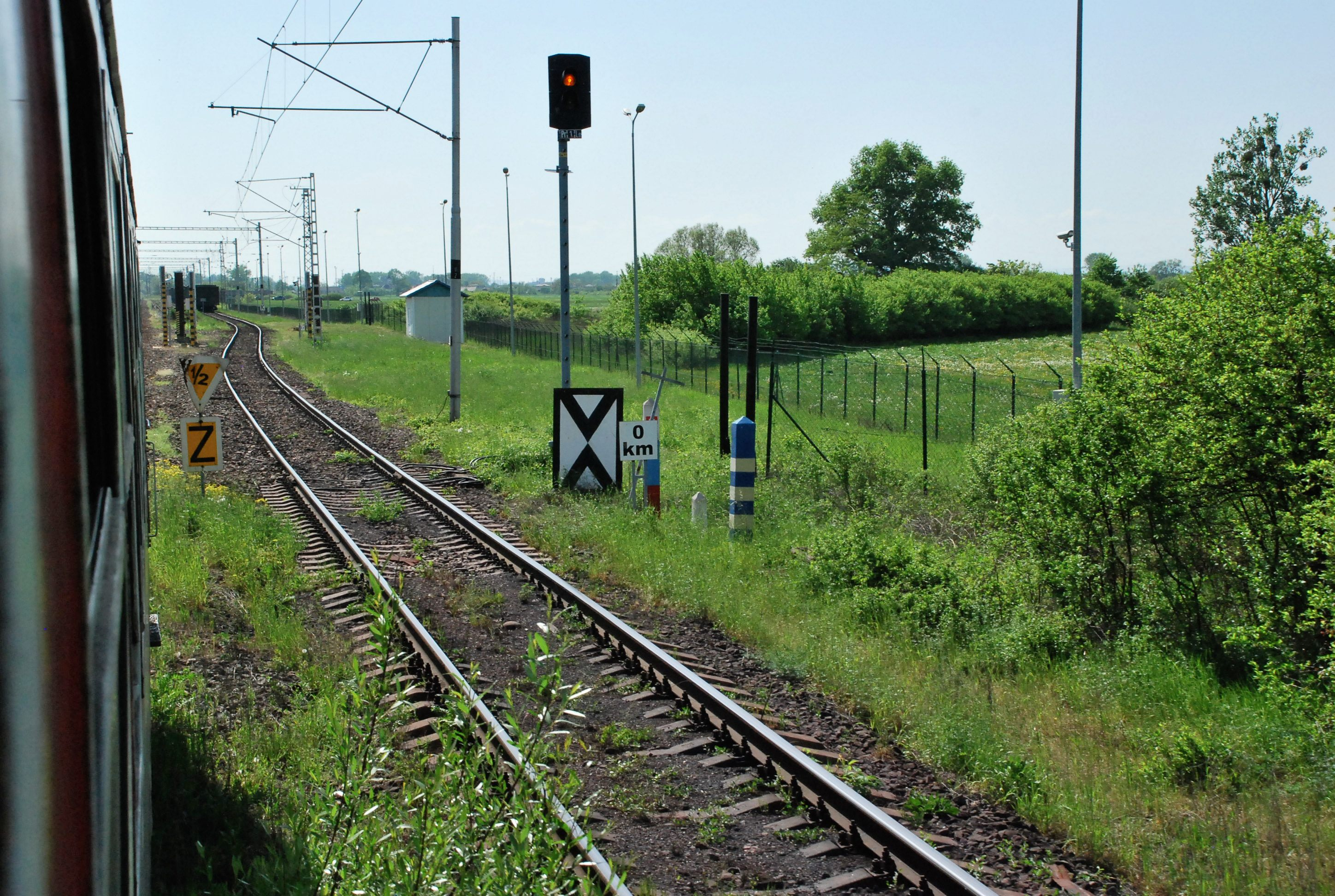 Slovak-Ukrainian state border between Čierna nad Tisou and Chop. Border line, kilometer "0,0". Slovakian signal light.